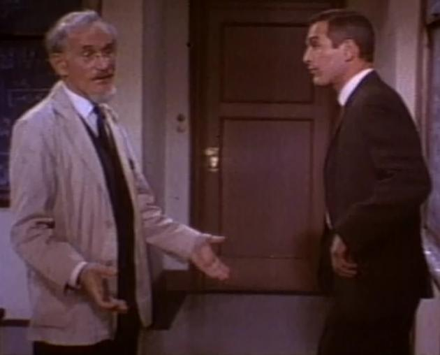 Ludwig Donath (left) and Paul Newman in Torn Curtain (1966) - trailer (cropped screenshot)